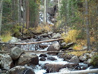 Small McIntyre Creek